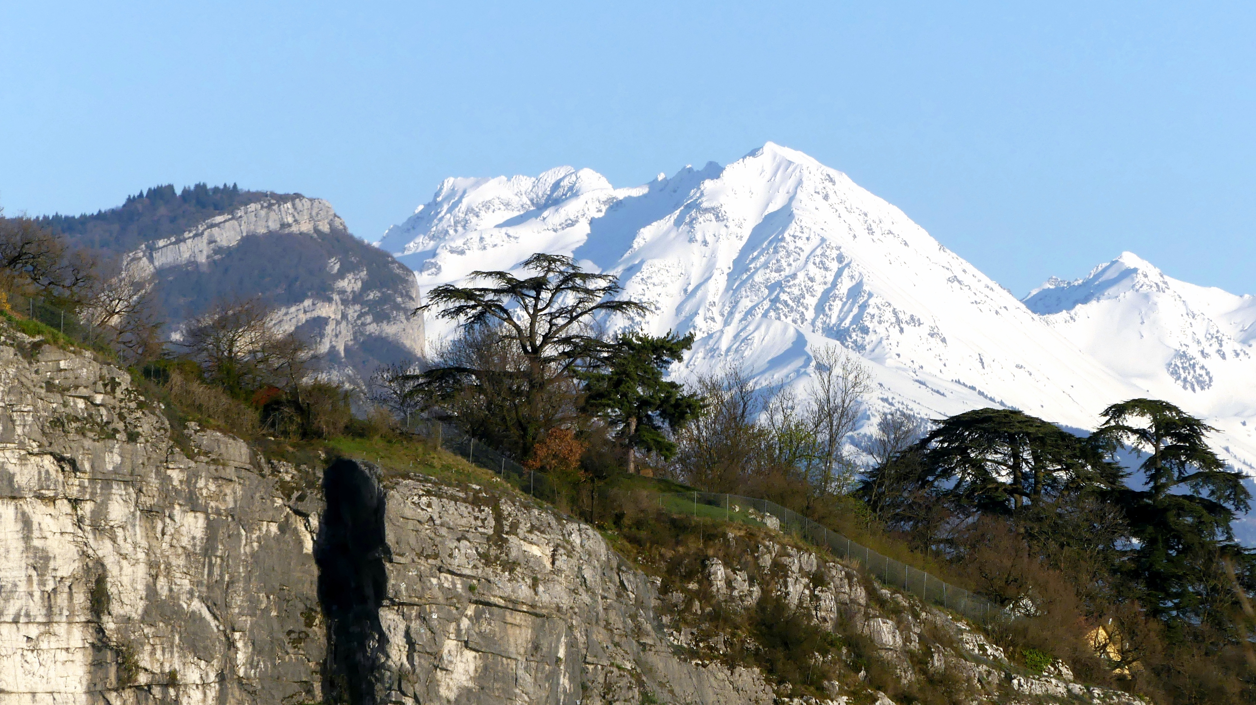 Sight, from Chambéry, of Les Monts hill and cliffs, the top of La Savoyarde mountain (Bauges mountain range) and the snow-covered Belledonne mountain range, in Savoie, France.